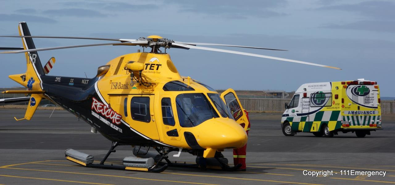 More photos at